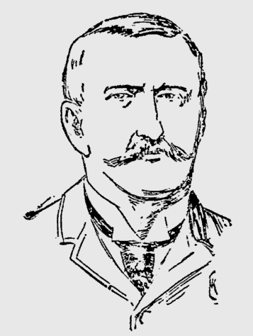 Sketch of Charles Frederick Williams (1897)